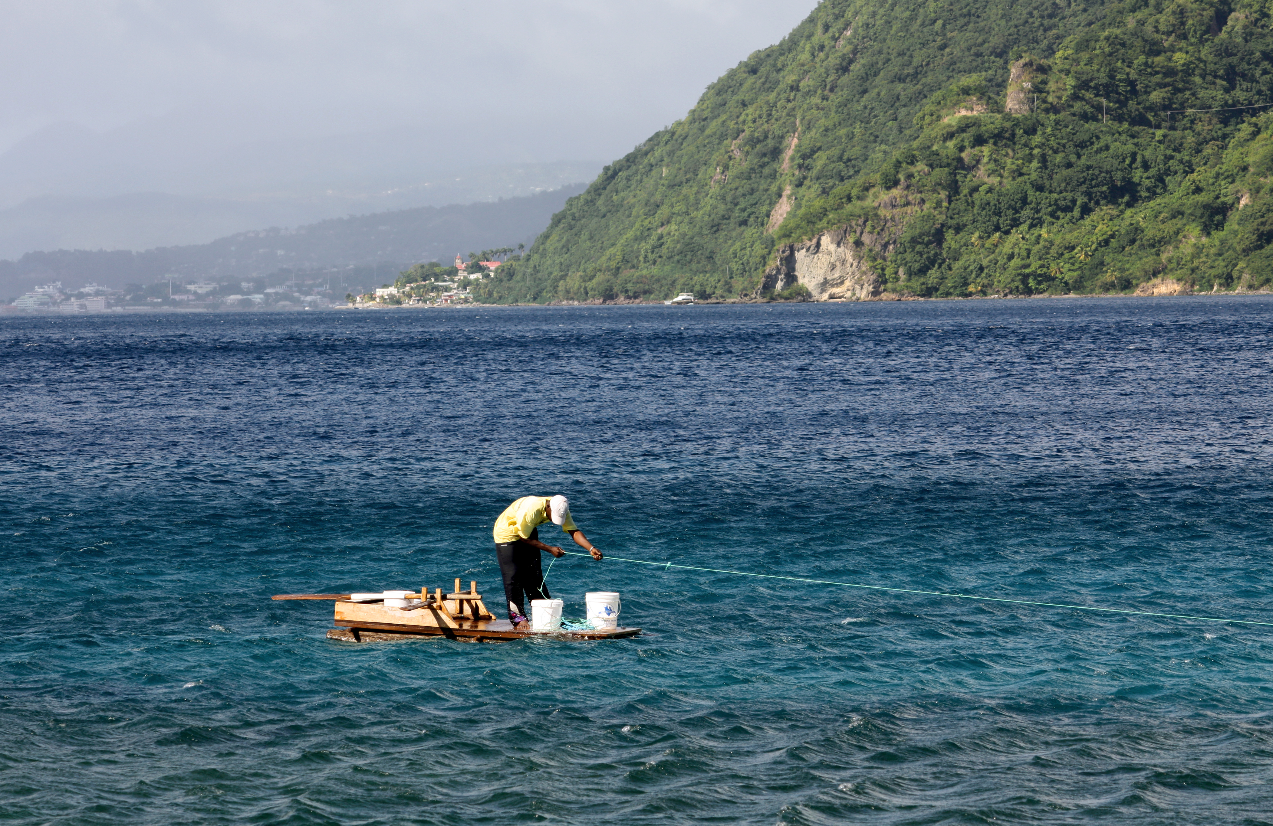 Fisherman on a raft in Soufrière Bay, Dominica. Pointe Michel and Roseau are visible in the distance.